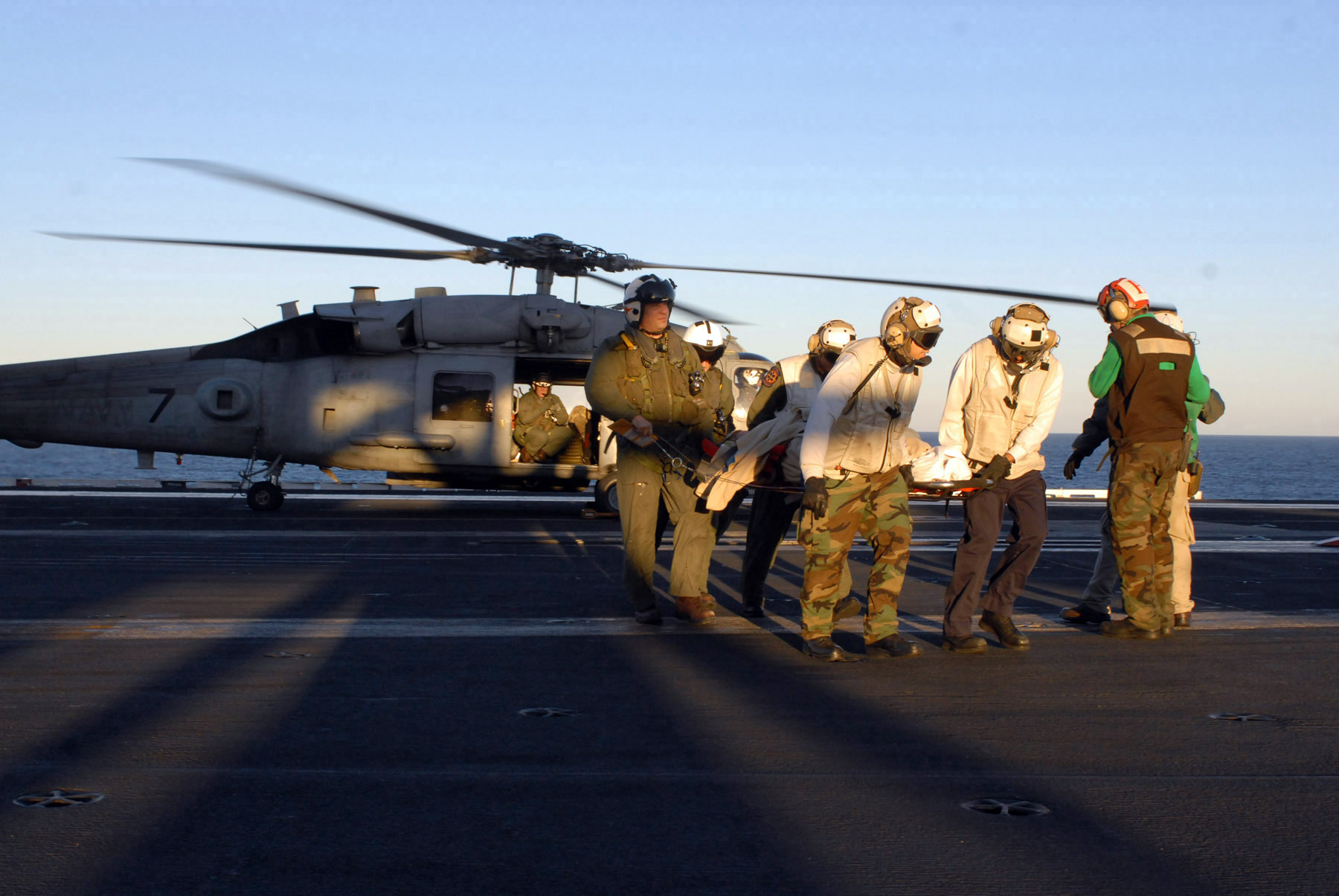 PACIFIC (Dec. 15, 2007) Medical personnel aboard the aircraft carrier USS Ronald Reagan (CVN 76) transfer a patient from an HH-60H Seahawk from Helicopter Anti-Submarine Warfare Squadron Four (HS) 4 following an emergency medical evacuation (MEDEVAC) at sea. The crew of Ronald Reagan and HS-4 helped MEDEVAC Laura Montero 14, from Albion, Ill., who had suffered from a ruptured appendix while vacationing aboard the Dawn Princess cruise ship off the coast of Baja, Mexico. Upon arrival to the ship, the ship's surgeon conducted an emergency appendectomy and the patient is resting comfortably aboard Ronald Reagan. U.S. Navy Photo by Mass Communication Specialist 2nd Class Joseph M. Buliavac (Released)